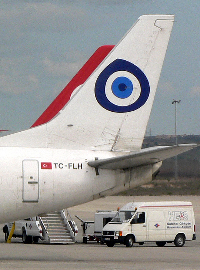 An aircraft with Nazar boncuğu; the blue eye that protects from the evil eye. Sabiha airport, Istanbul